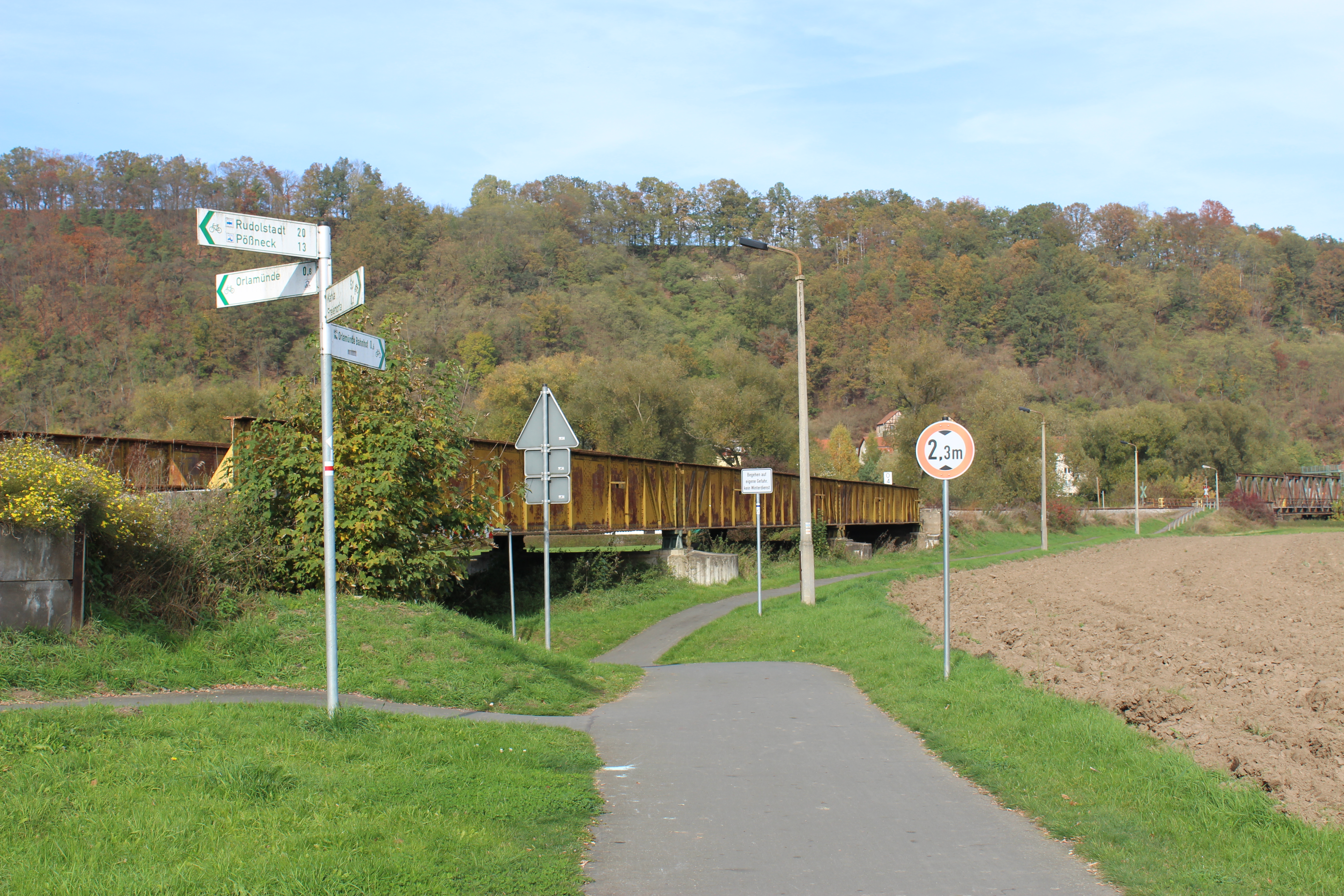 railway bridge in Freienorla